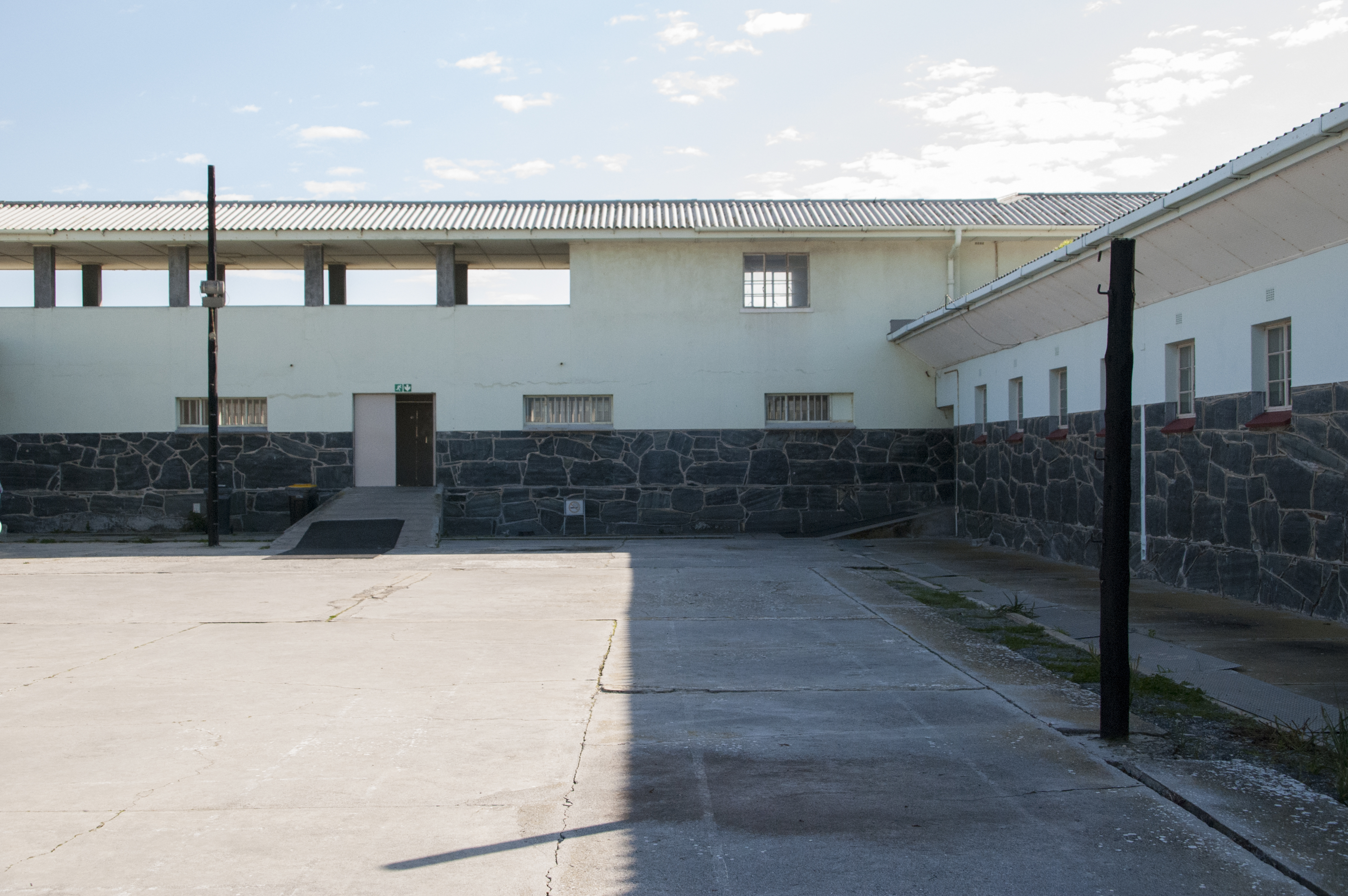 Backyard, Maximum Security Prison, Robben Island This place is a UNESCO World Heritage Site, listed as Robben Island.